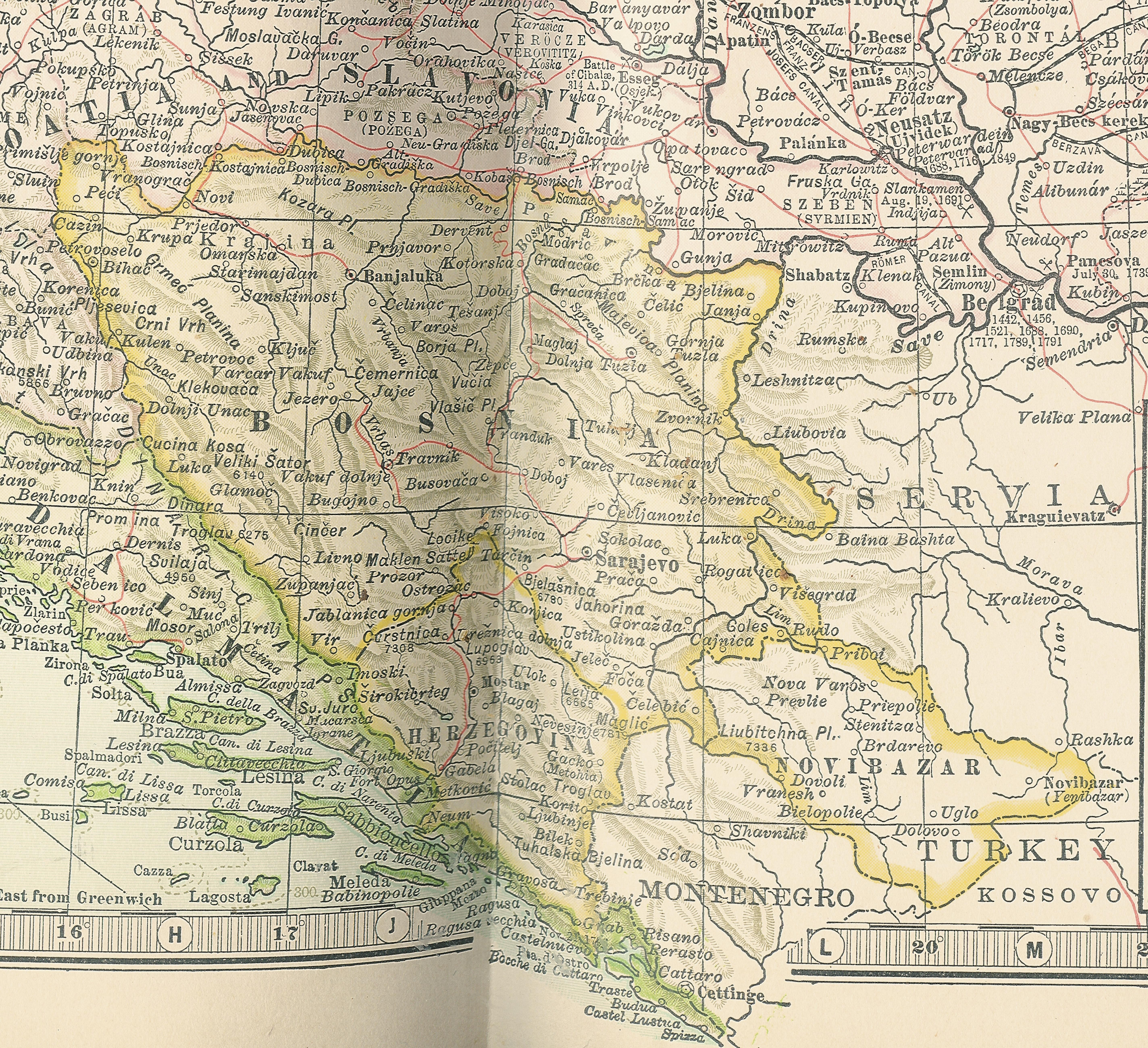 Map showing Bosnia-Herzegovina and the Sanjak of Novibazar.